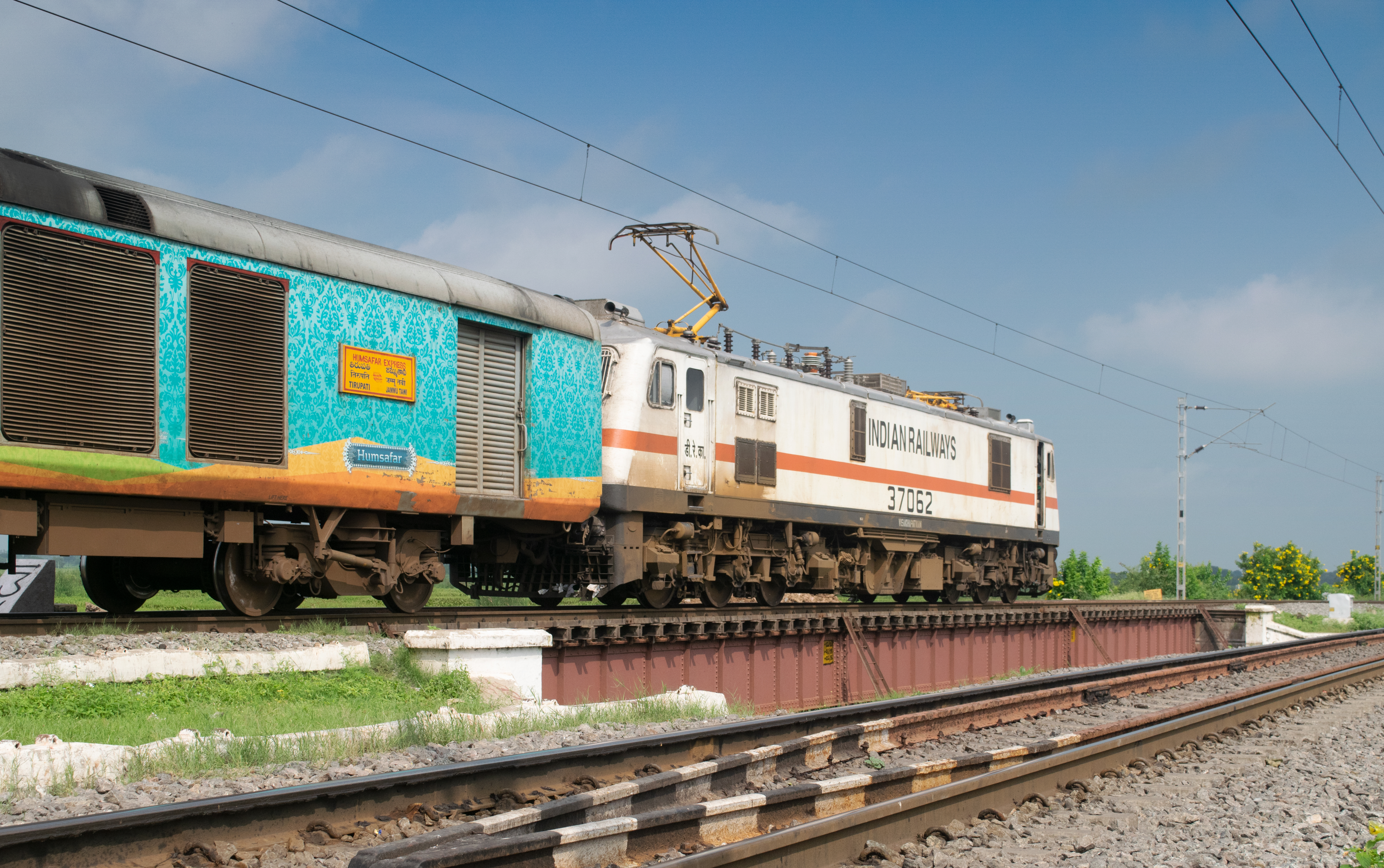 Jammu Tawi bound Tirupati to Jammu Tawi Express leaving Kazipet Junction